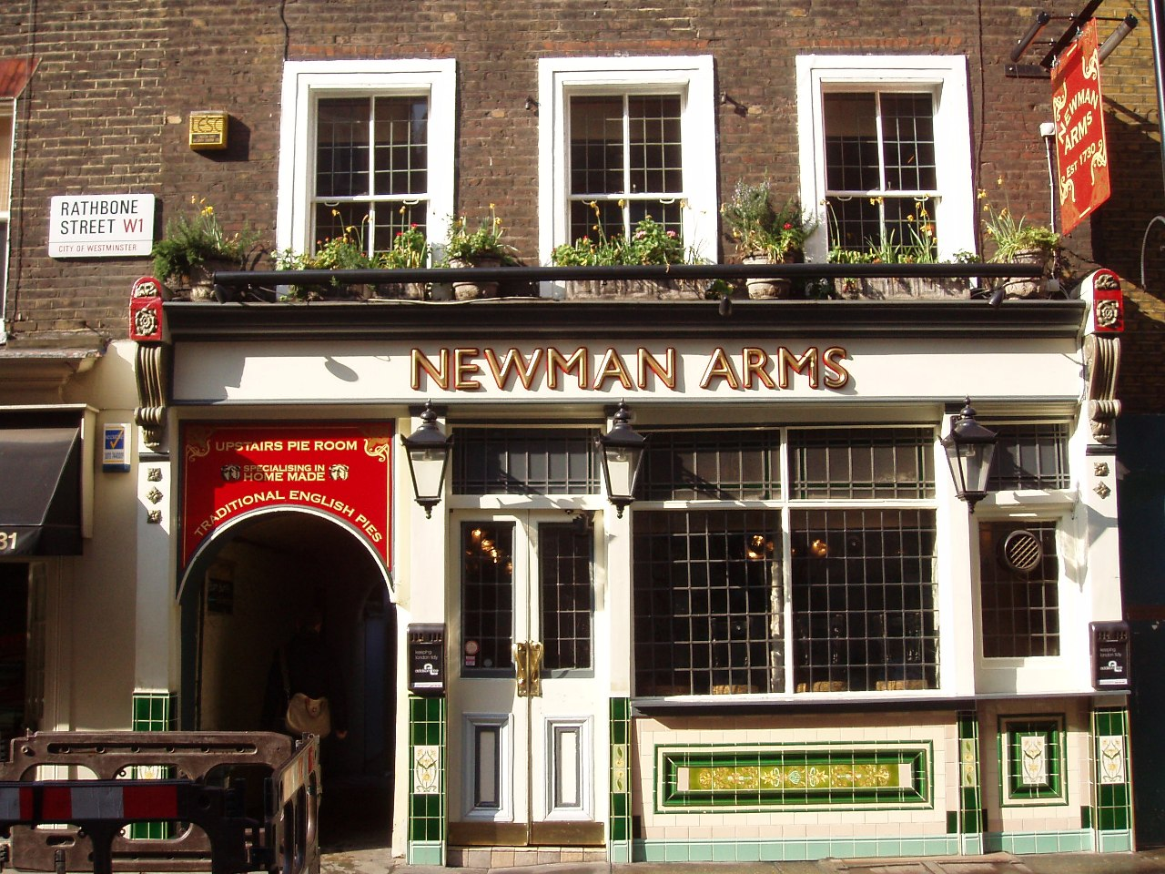 A long-standing pub doing pies on Rathbone Street. It has a tiny downstairs, though. (View of pub sign, which is under that arch on the path leading to Newman Passage.) (Photo of vegetarian pie.) Address: 23 Rathbone Street (formerly Upper Rathbone Place). Owner: Punch Taverns (website); Charrington (former). Links: Randomness Guide to London Fancyapint Beer in the Evening Qype Dead Pubs (history)